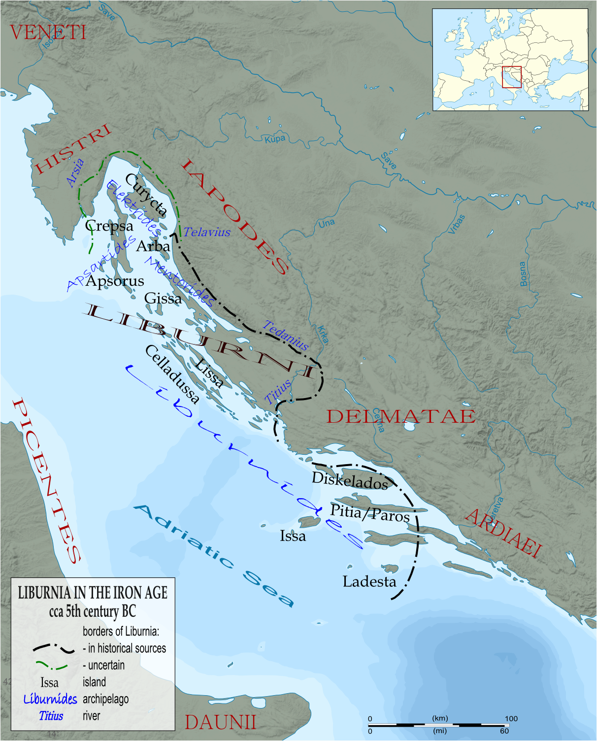 Liburnia and central Adriatic archipelago under Liburnian rule in the 5th century BC.